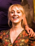 Hattie Morahan at the production of The Children's Monologues